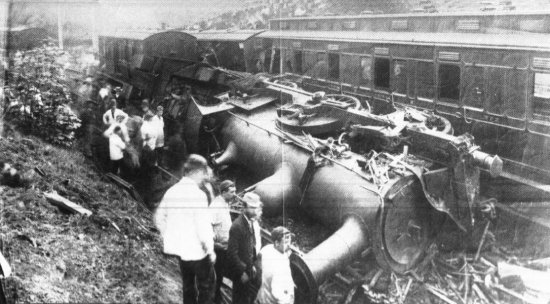 Esholt junction rail crash, 1892. A 2-4-0 locomotive of the Midland Railway, No. 179 is lying on its side after having collided with the rear of a passenger train at Esholt Junction. The accident occurred in 1892 on the line between Leeds and Ilkley and killed 5 people.